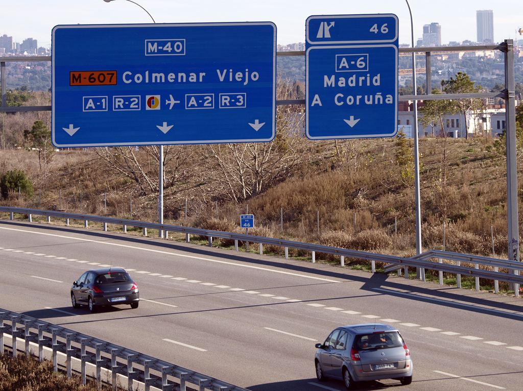 M-40 Highway, Spain, kilometer 46. The M-40, in Spanish transport, is a Madrid orbital motorway.